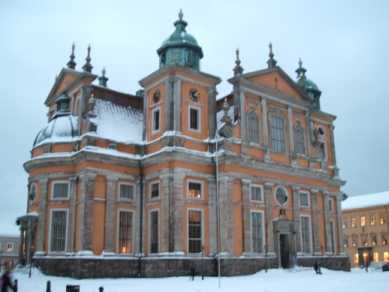 Cathedral of Kalmar in Sweden.